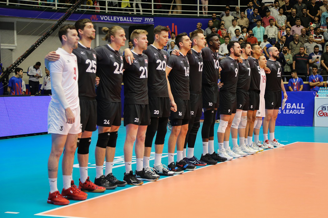 Canada men's national volleyball team in a match against Iran men's national volleyball team during 2019 FIVB Volleyball Men's Nations League in Ardabil, Iran.